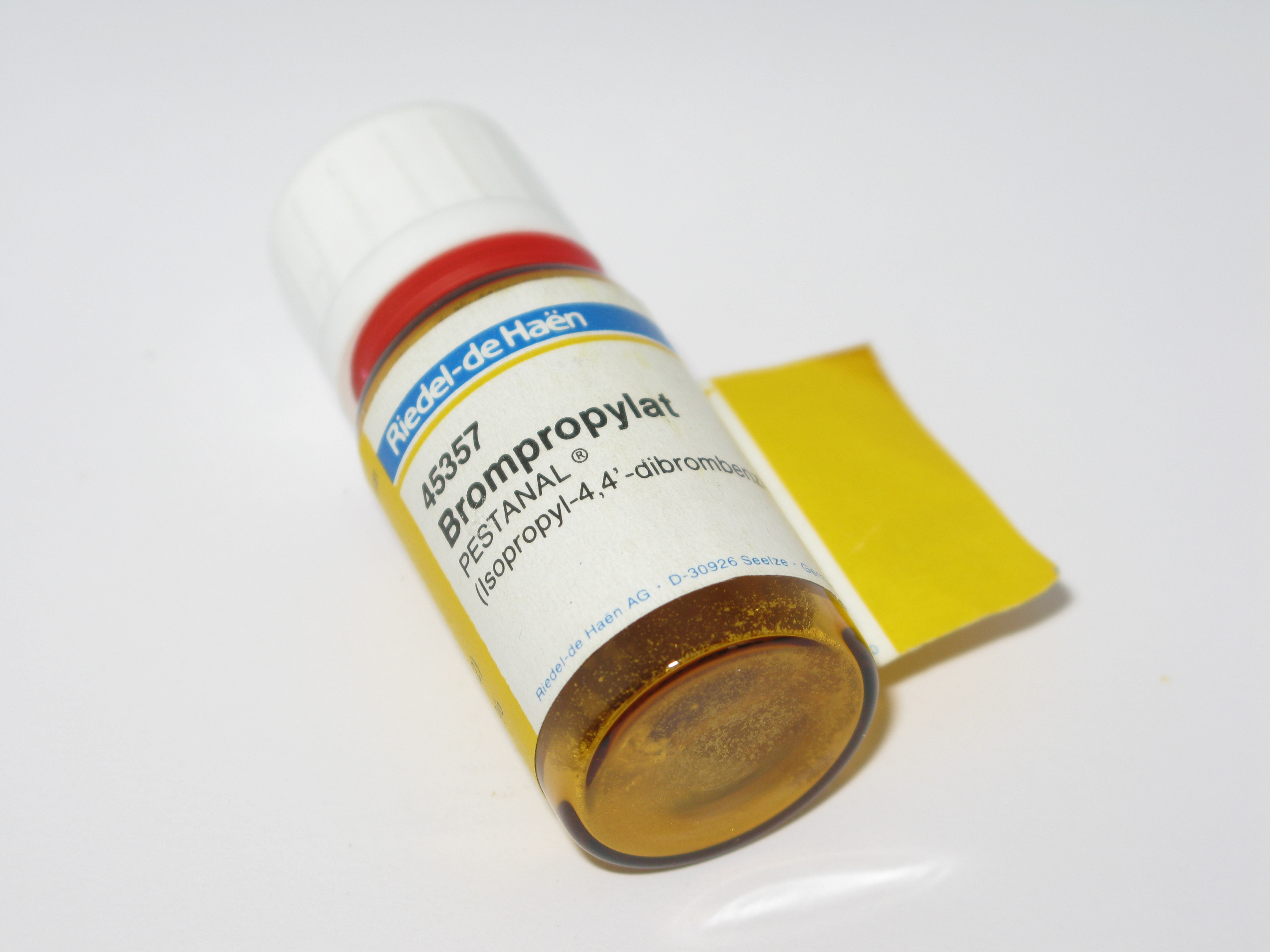 Vial of Bromopropylate